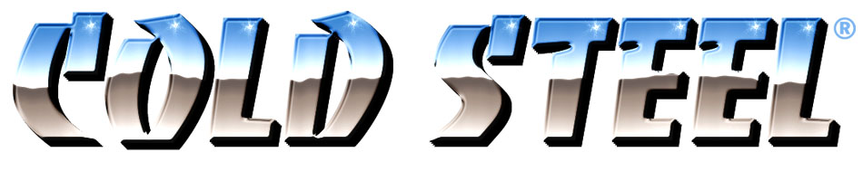 Cold Steel Inc. Lynn C. Thompson (President & Founder) Founded Since 1980 Products: High Quality Knives, Swords, Instructional DVDs, Tomahawks, Machetes, and other Combat/Martial Arts Related Products.